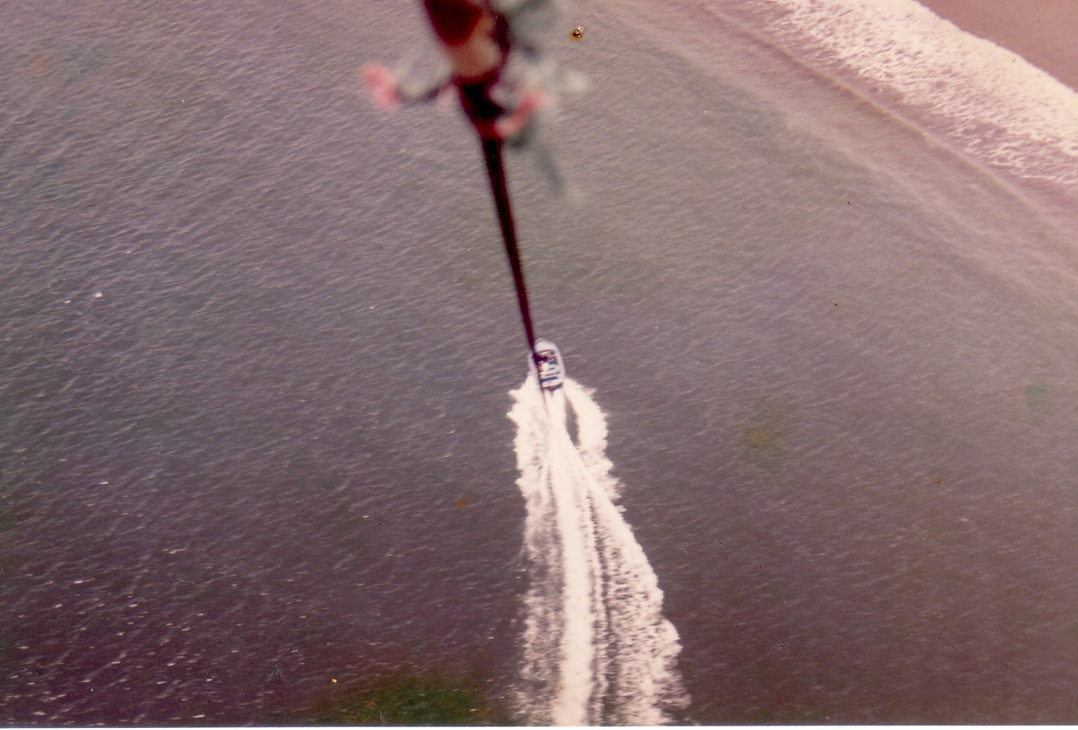 Parasailing at Bali.